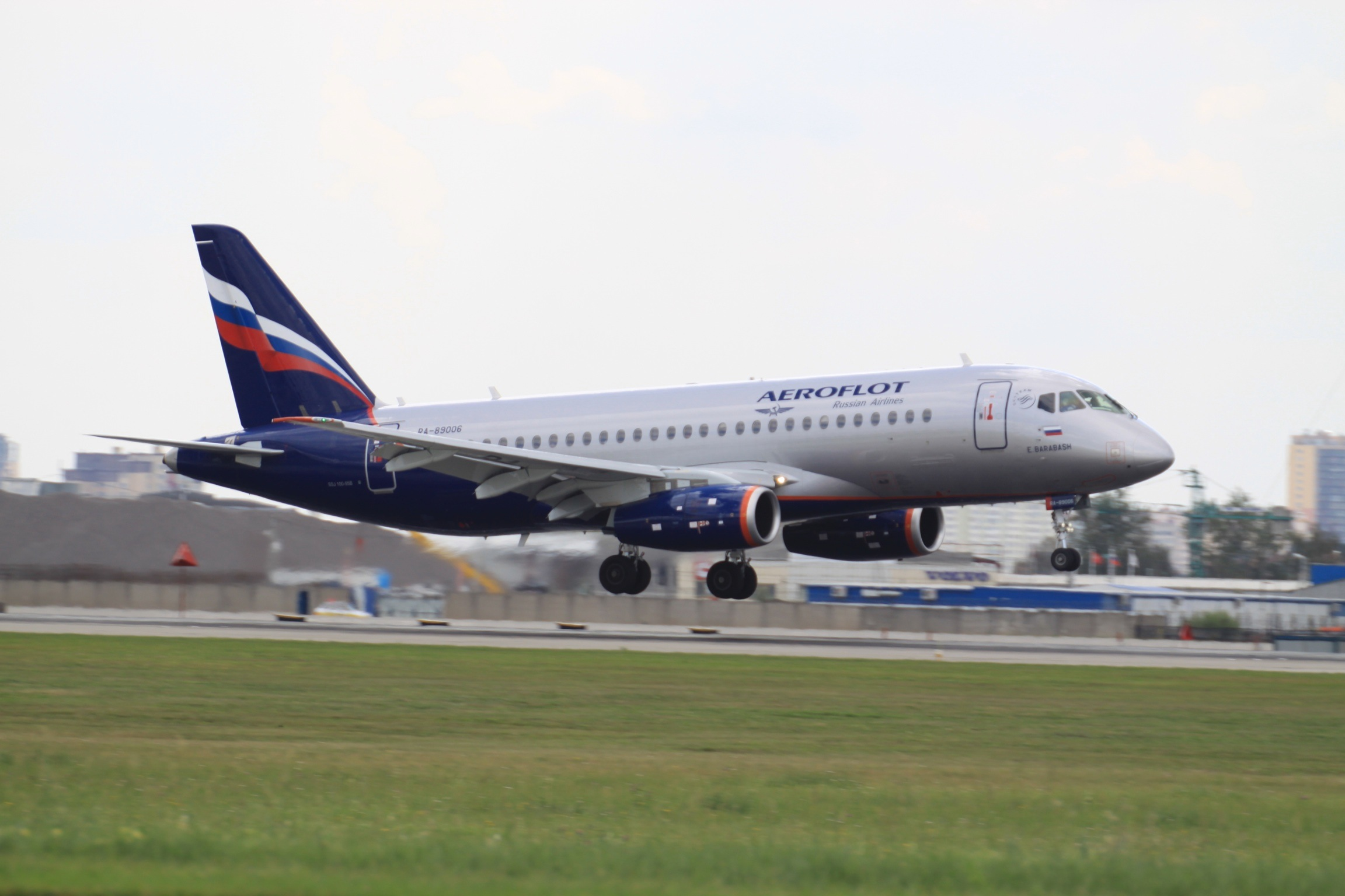 At Moscow Sheremetyevo